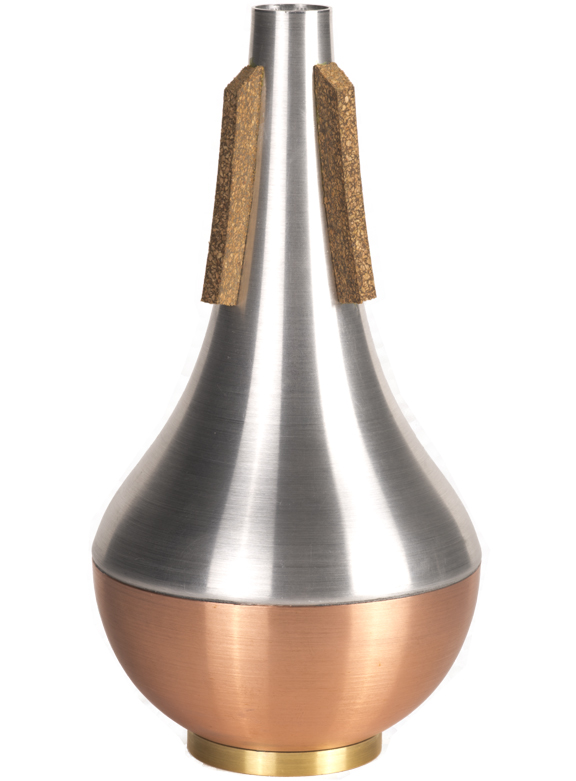 Trumpet Straight Mute (Copper Bottom)